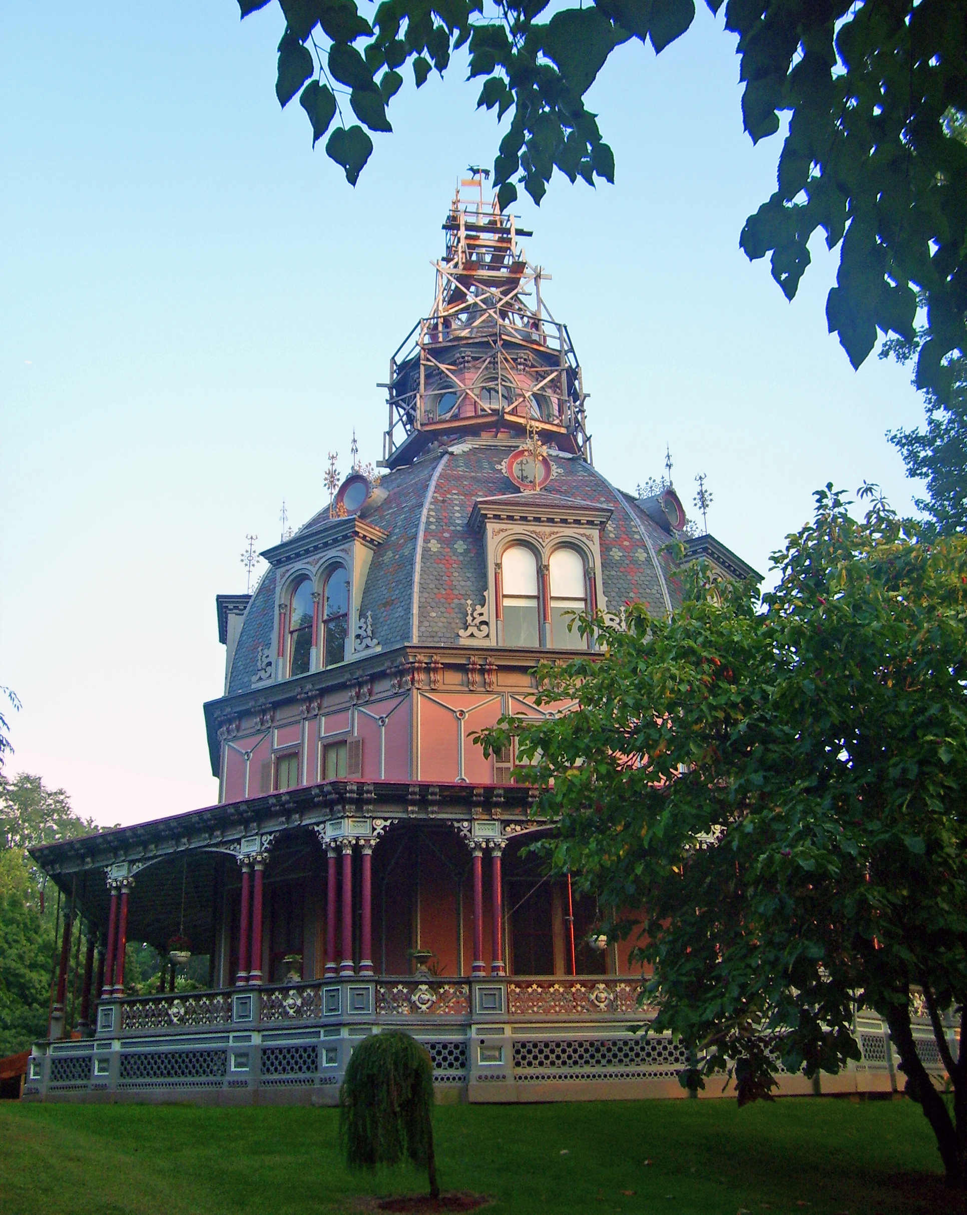 Armour-Stiner House, a National Historic Landmark in Irvington, NY, USA. Believed to be the only domed octagonal home in the world